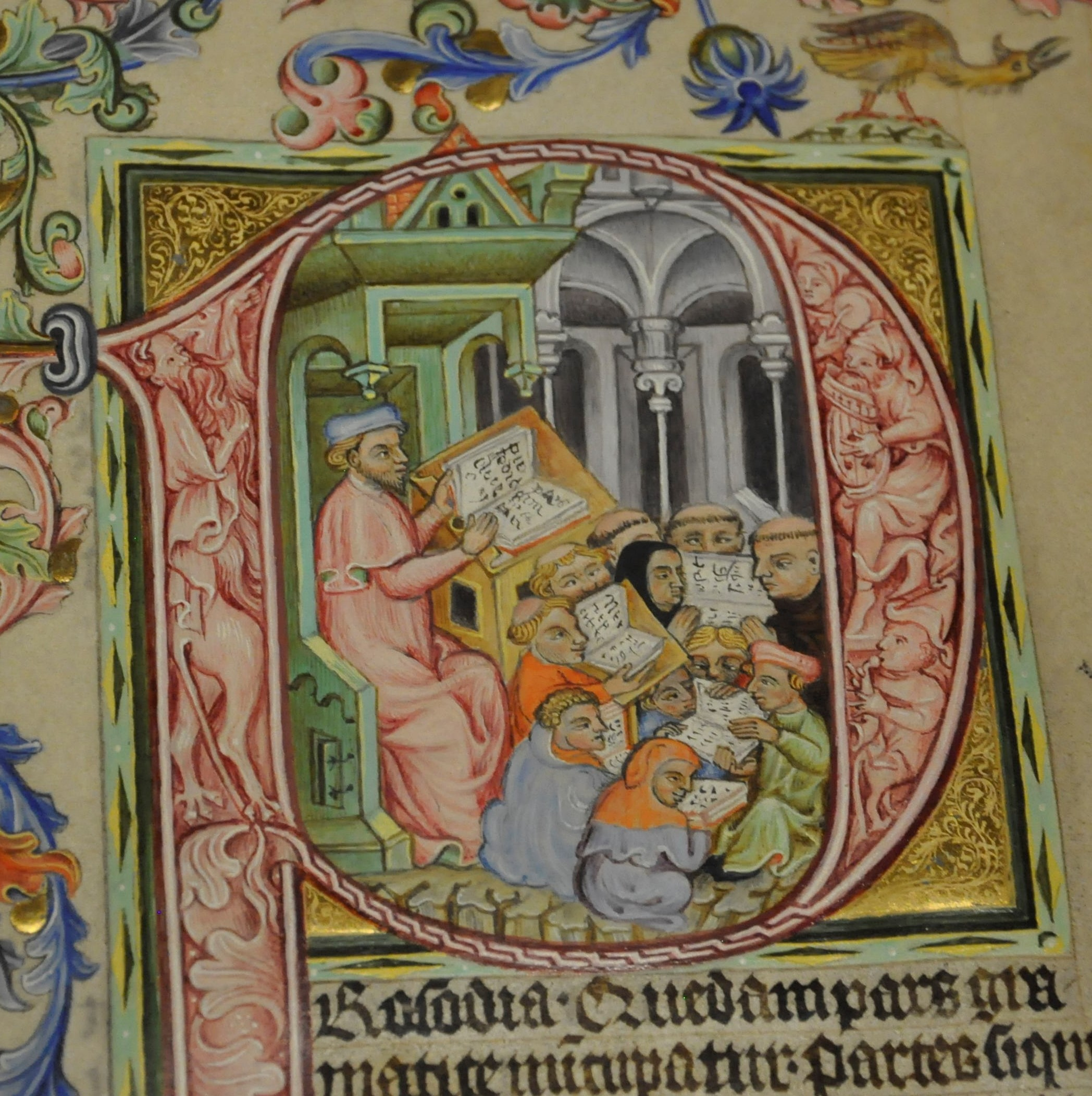 Class in medieval Bohemia. From a Latin manuscript made in Bohemia in the late 14th century.